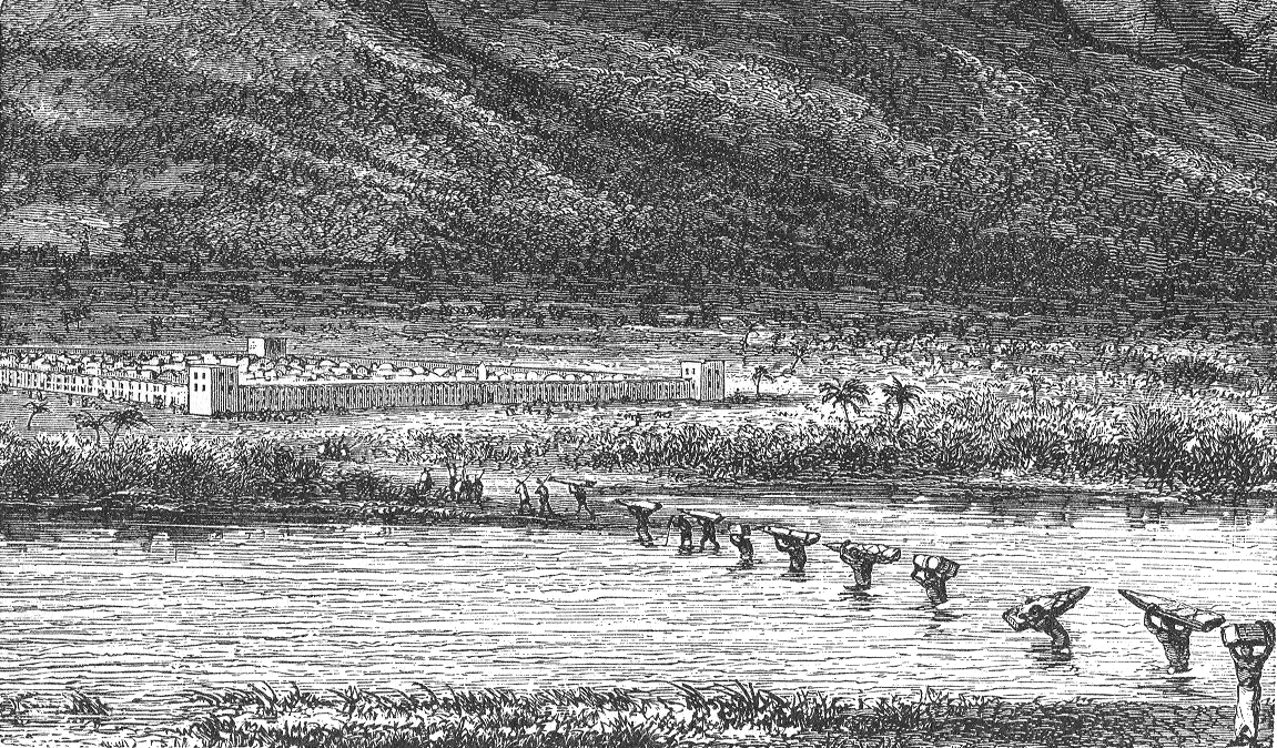 Title : simbamouenni from Henry Morton Stanley's: How I found Livingstone.